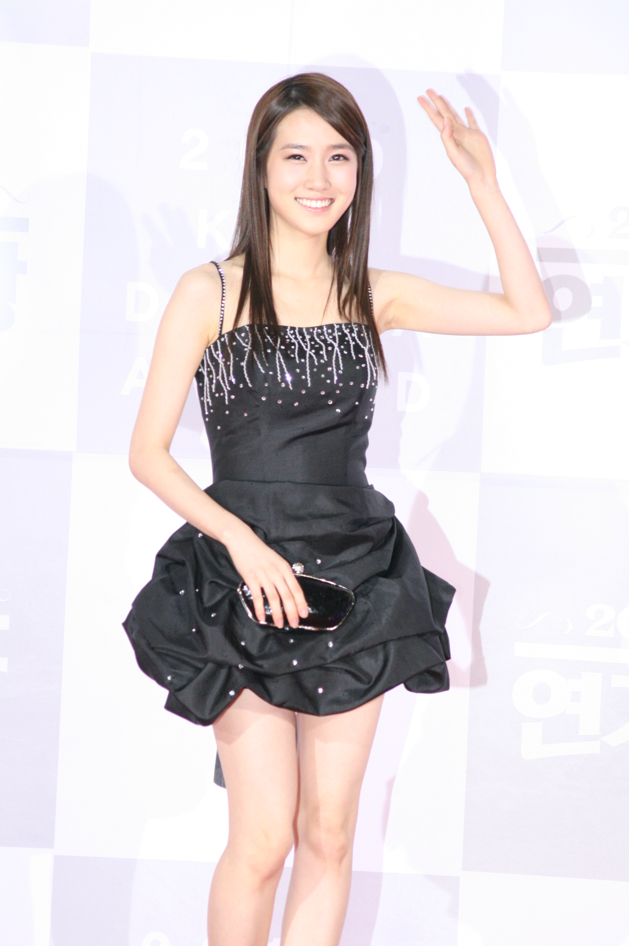 2010 KBS 연기대상